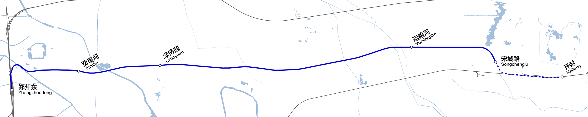 Route Map of Zhengzhou-Kaifeng Intercity Railway